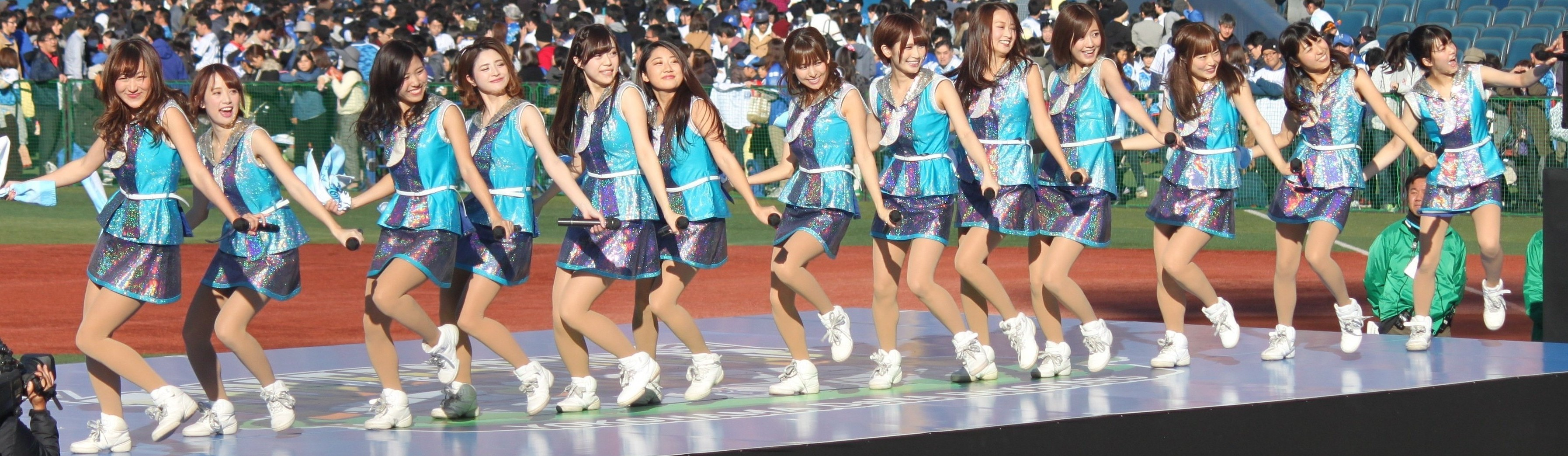 "diana", cheer team of the Yokohama DeNA BayStars, at Yokohama Stadium